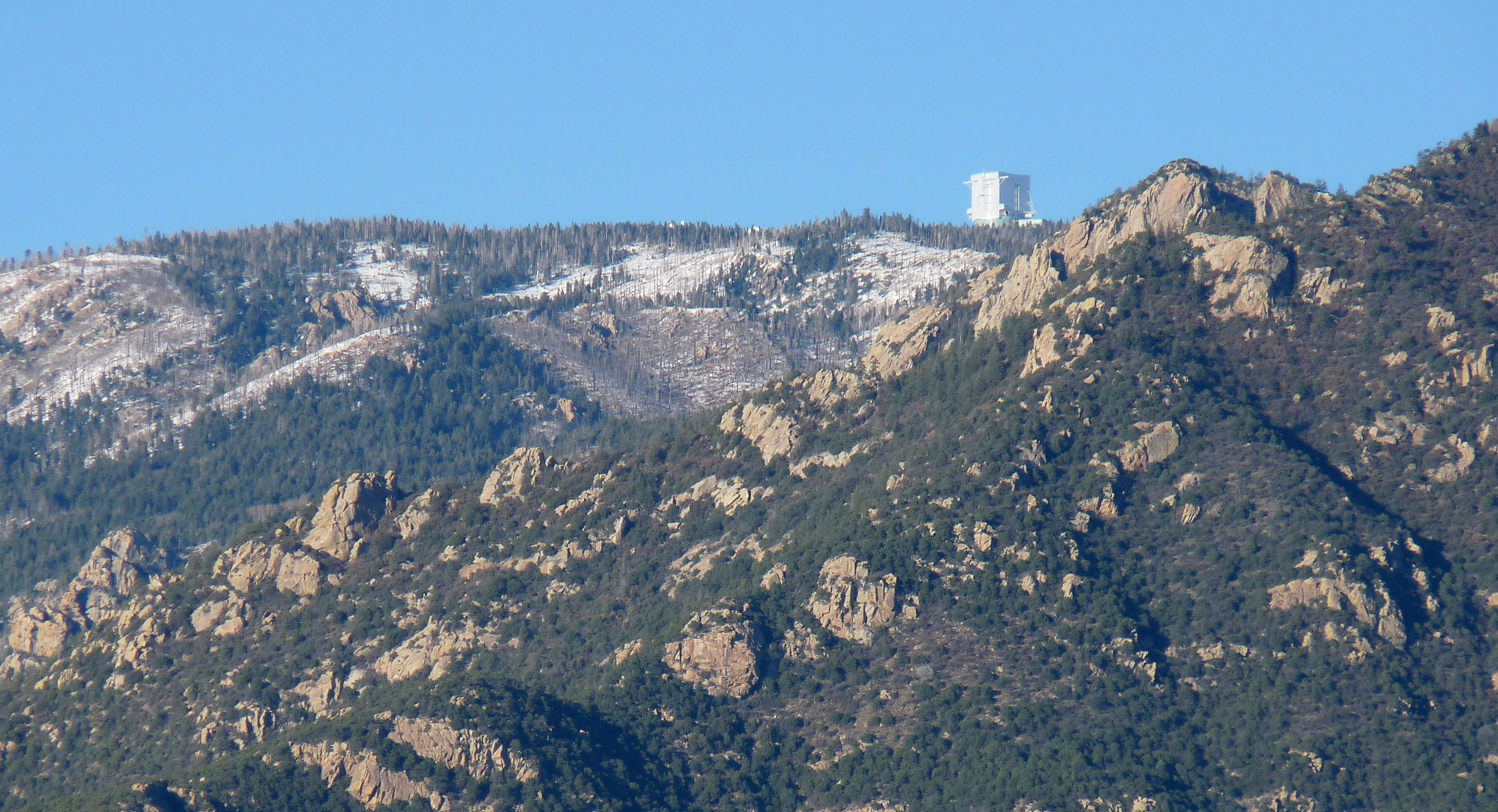 The image represents the Large Binocular Telescope on the top of the Pinaleno Mountains range, part of the Madrean Sky Islands enclave mountains structure. It was photographed from the south of the mountains, somewhere south-west of Safford, Graham County, on the Arizona State Route 266. The spot is to the end of the route, closer to Willcox than to Safford.